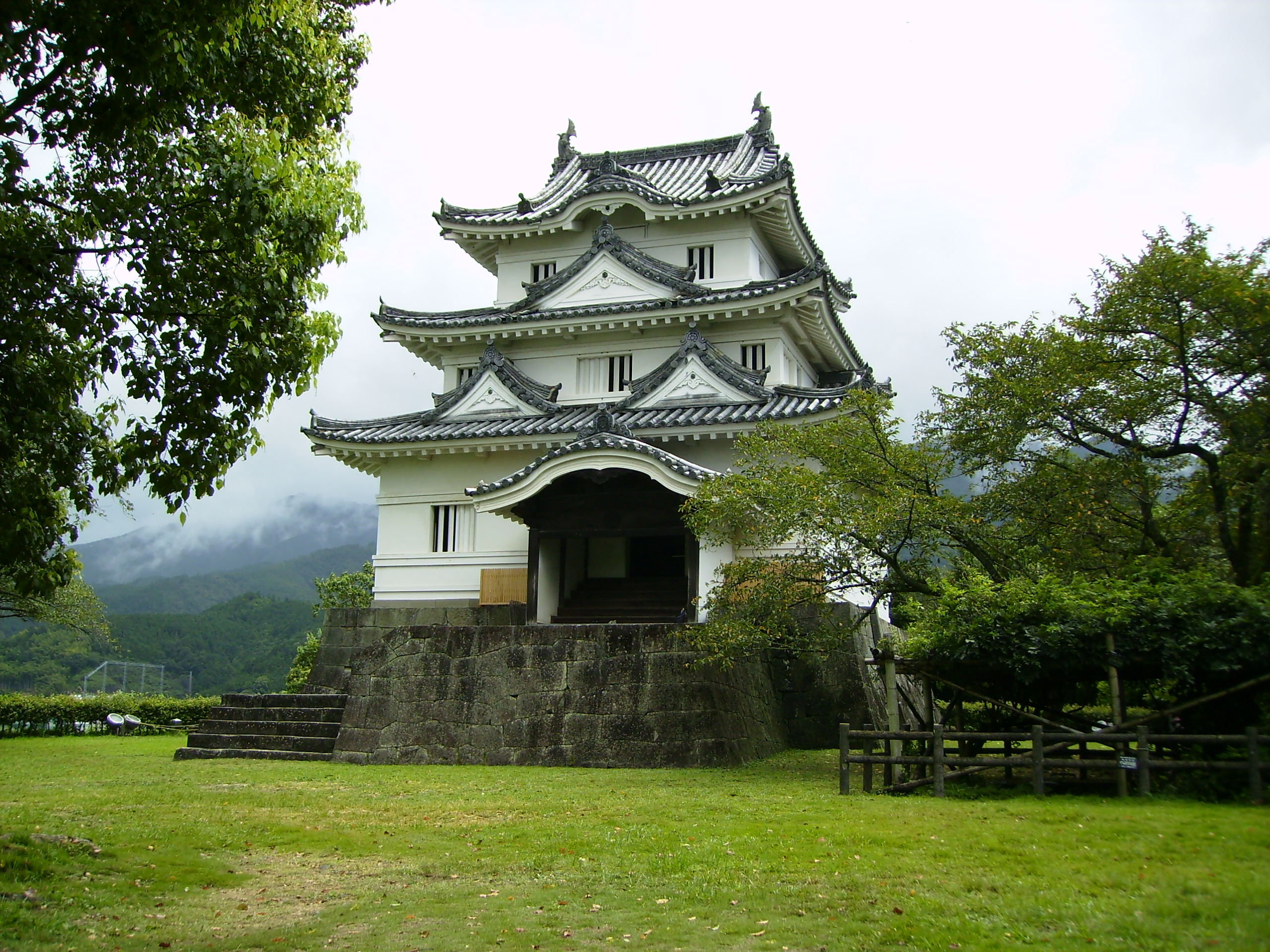 Uwajima Castle taken by myself in August 2006